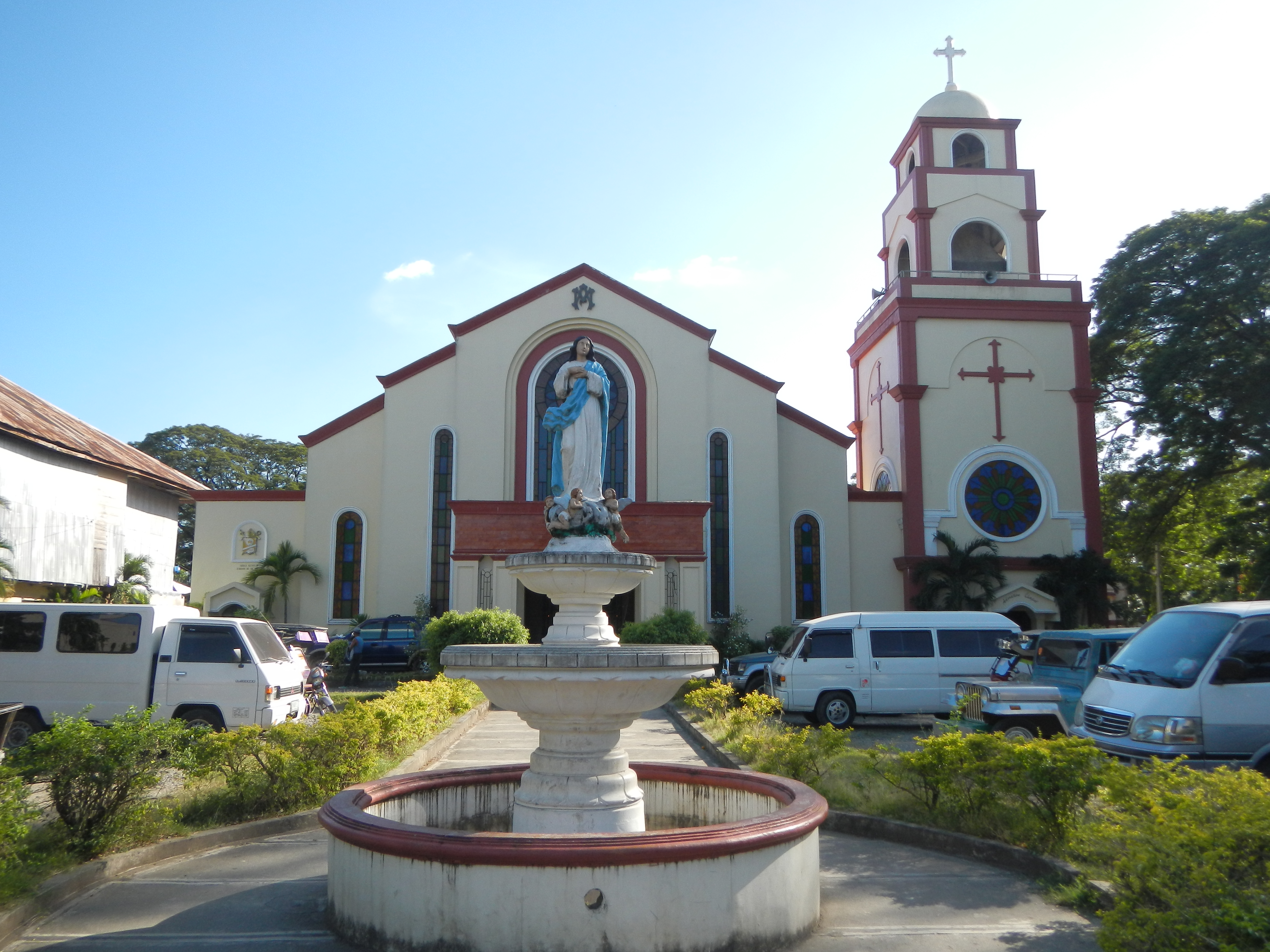 1858 Immaculate Conception Cathedral Vicariate of Our Lady Vicar Forane: Father Elpidio F. Silva Jr. 2428 Urdaneta City, Philippines Feast Day: December 8 Phone: +63 75 568-2444 / 568-7189 Rector: Msgr. Lazaro P. Hortaleza, VG Vice Rectors: Father Elpidio F. Silva Jr., VF Father Alberto A. Viernes Father Christopher R. Herreria Roman Catholic Archdiocese of Lingayen-Dagupan, Roman Catholic Diocese of Urdaneta[1][2][3][4] Urdaneta, Pangasinan[5]